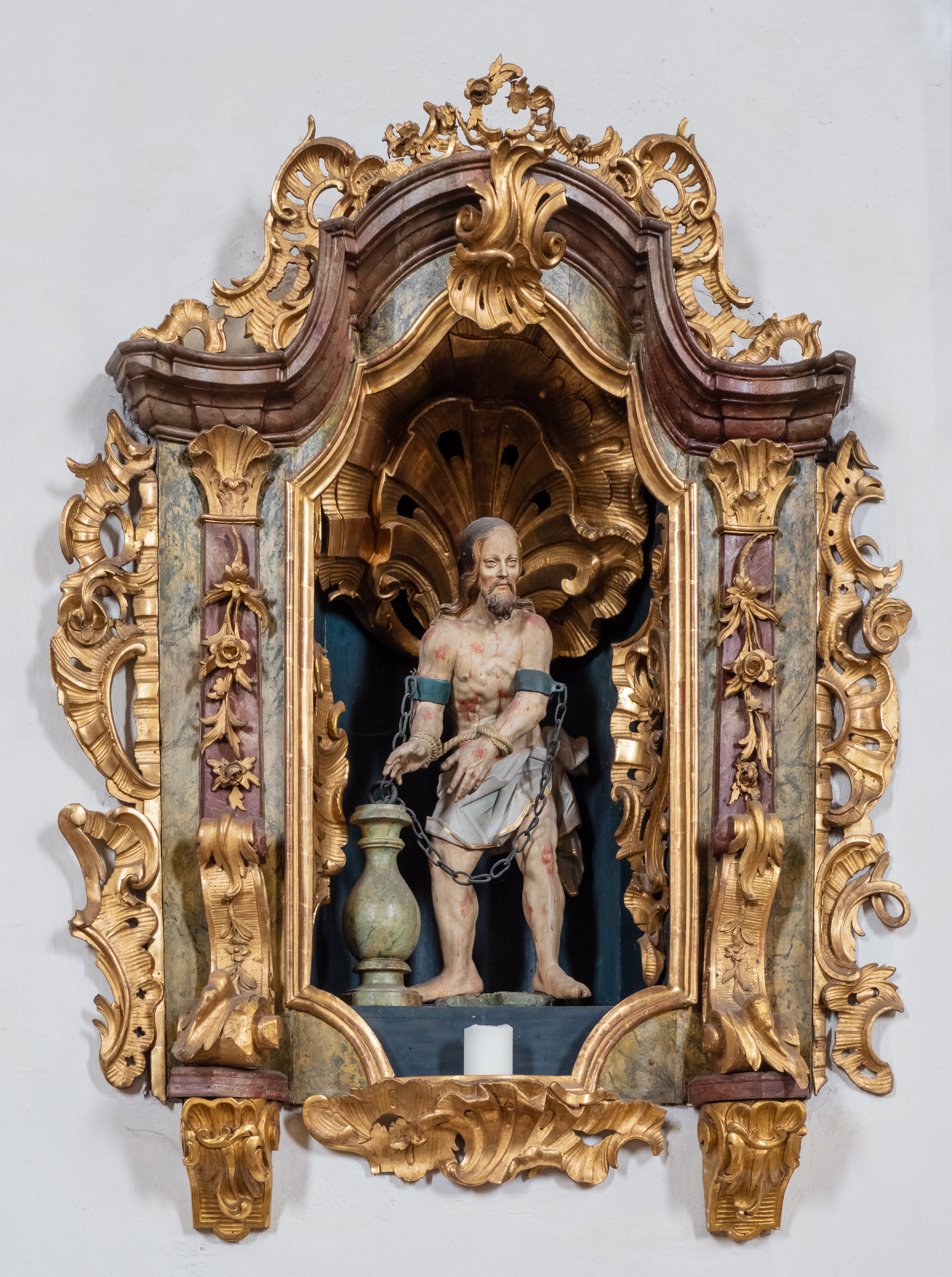 Statue in the Catholic parish church Weißenohe